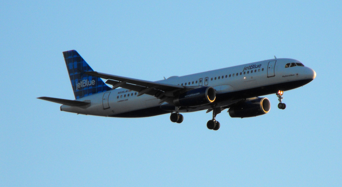 JetBlue Airbus 320 coming in to land at Oakland Airport